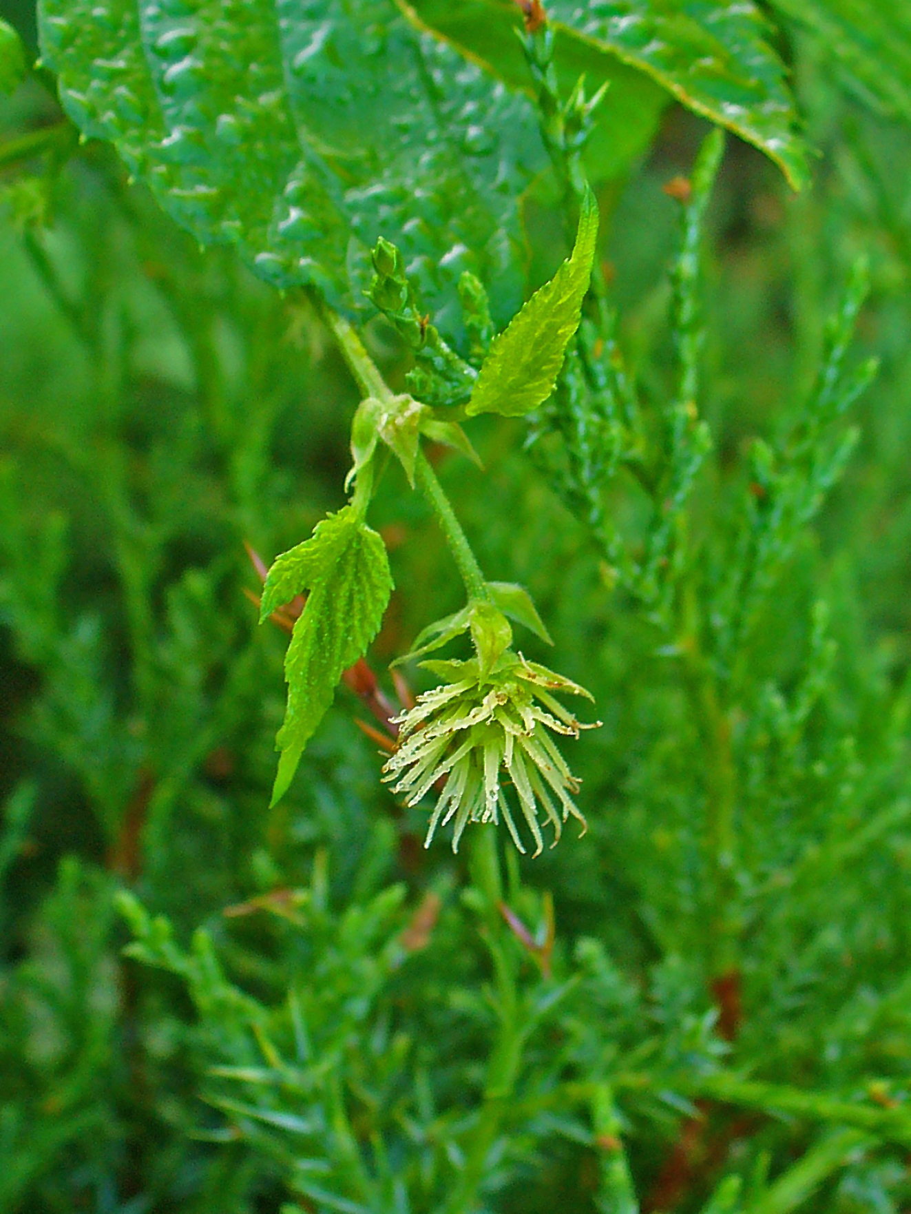 Common Hop, female inflorescence; Karlsruhe, Germany.